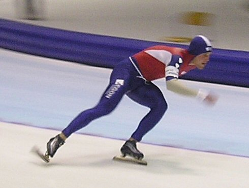 Remco Olde Heuvel (NED) at a World Cup in Thialf (Heerenveen, The Netherlands)